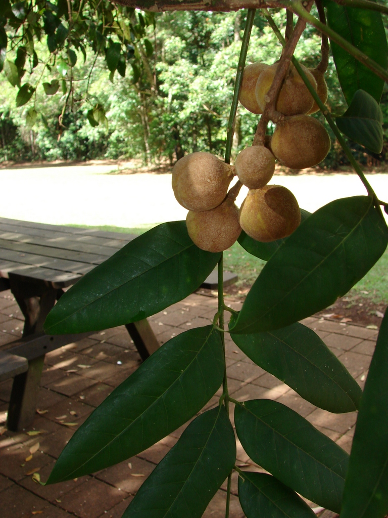 Australian rainforest tree:Dysoxylum mollissimum subsp. molle